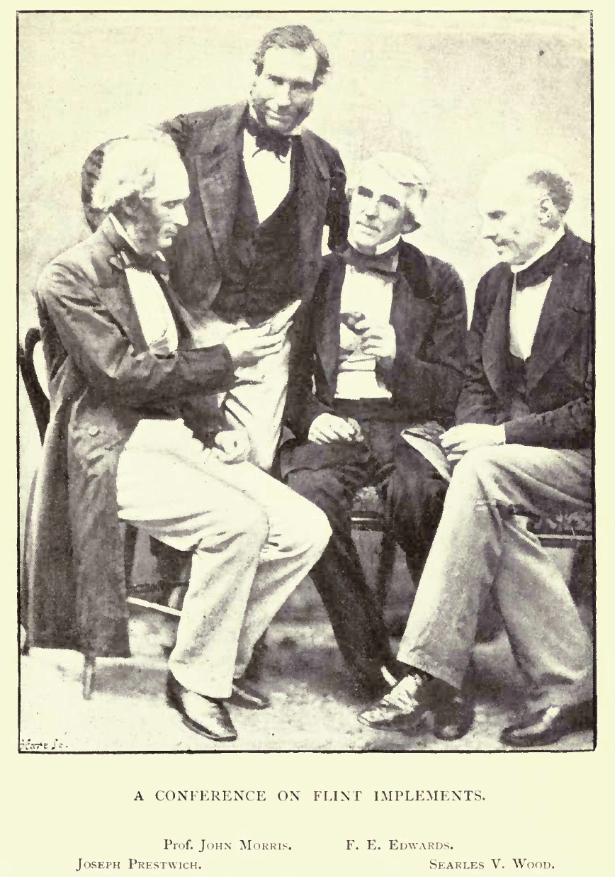 The Flint Conference. Joseph Prestwich (1812–1896), John Morris (1810–1886), Searles Valentine Wood (1798–1880) and F.E. Edwards